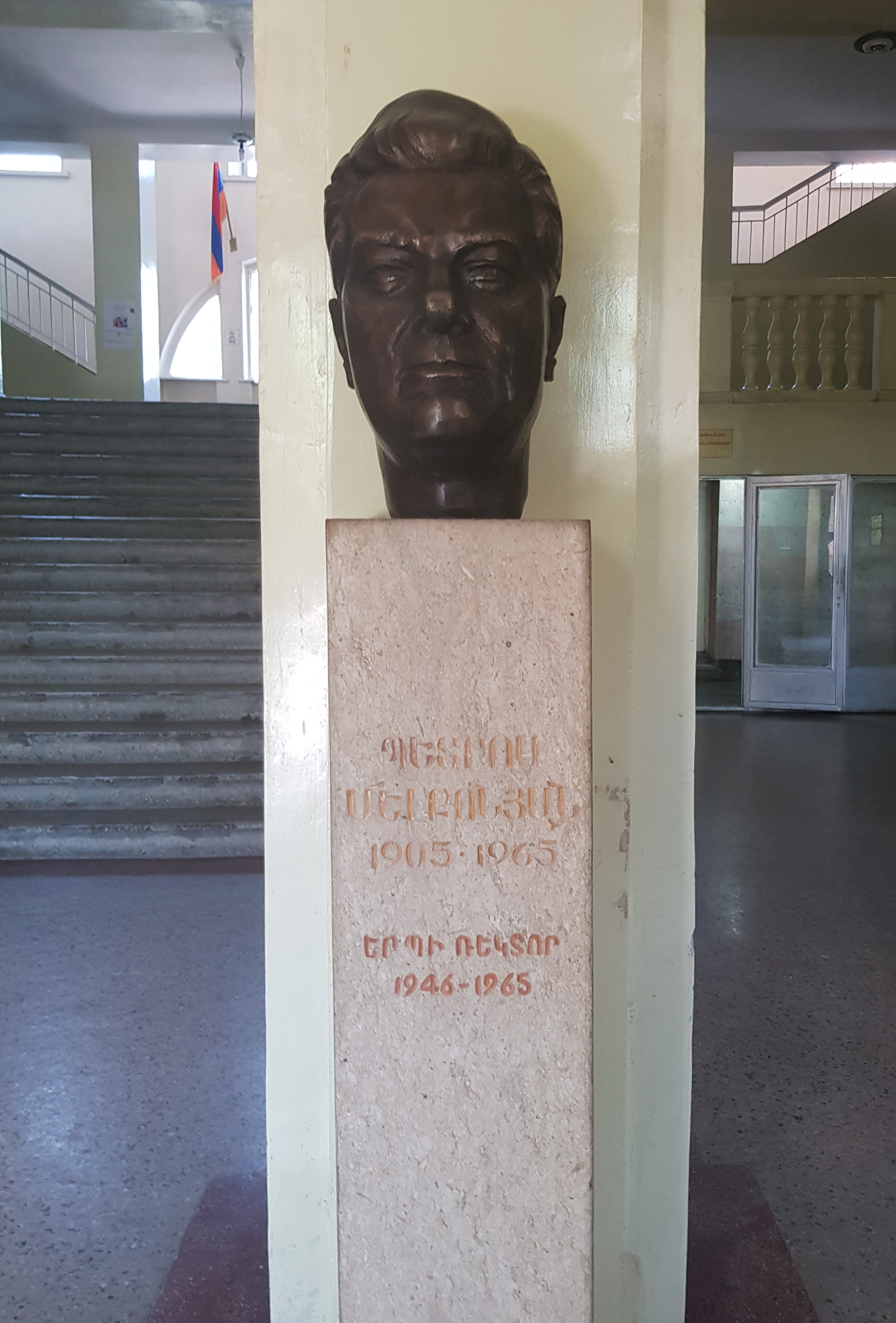 Bust of Petros Melkonyan in the building of Chemical Technologies Department